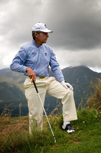 A picture of Mr. Player taken at the GPI in South Africa this year.